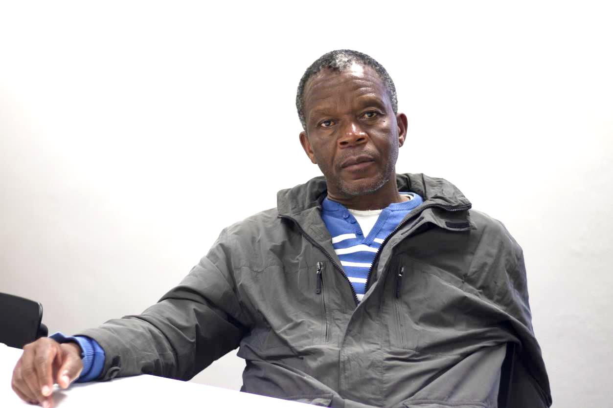 Andrew Tshabangu at the Market Photo Workshop on 8 November 2019.